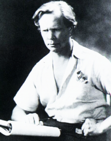 Erkki Karu (1887-1935), founder of Suomi-Filmi and Suomen Filmiteollisuus